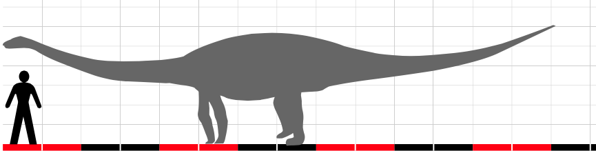 Size comparison of Kaatedocus siberi and a human.